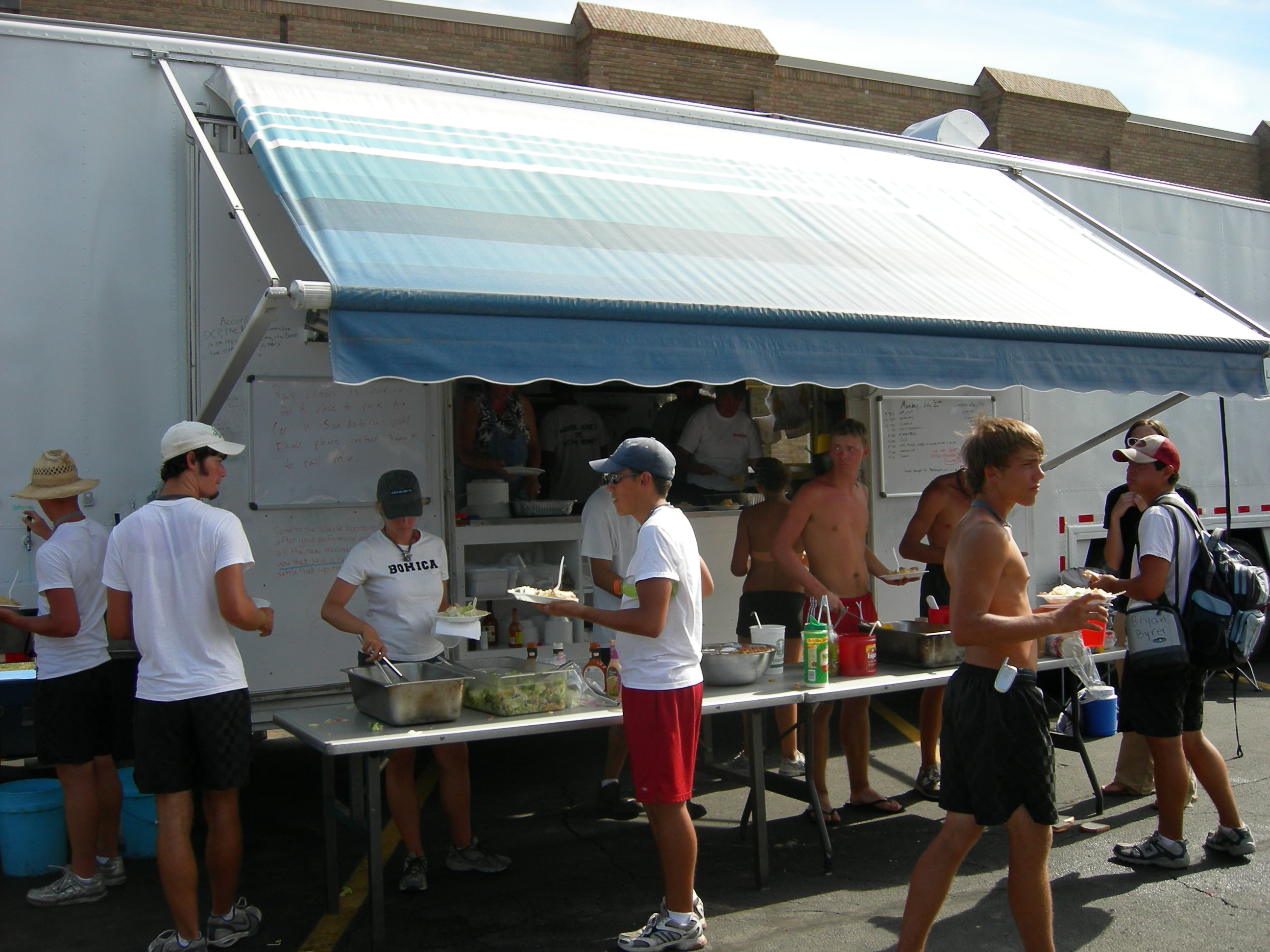 Members of the Bluecoats Drum and Bugle Corps eat before a competition in 2007.